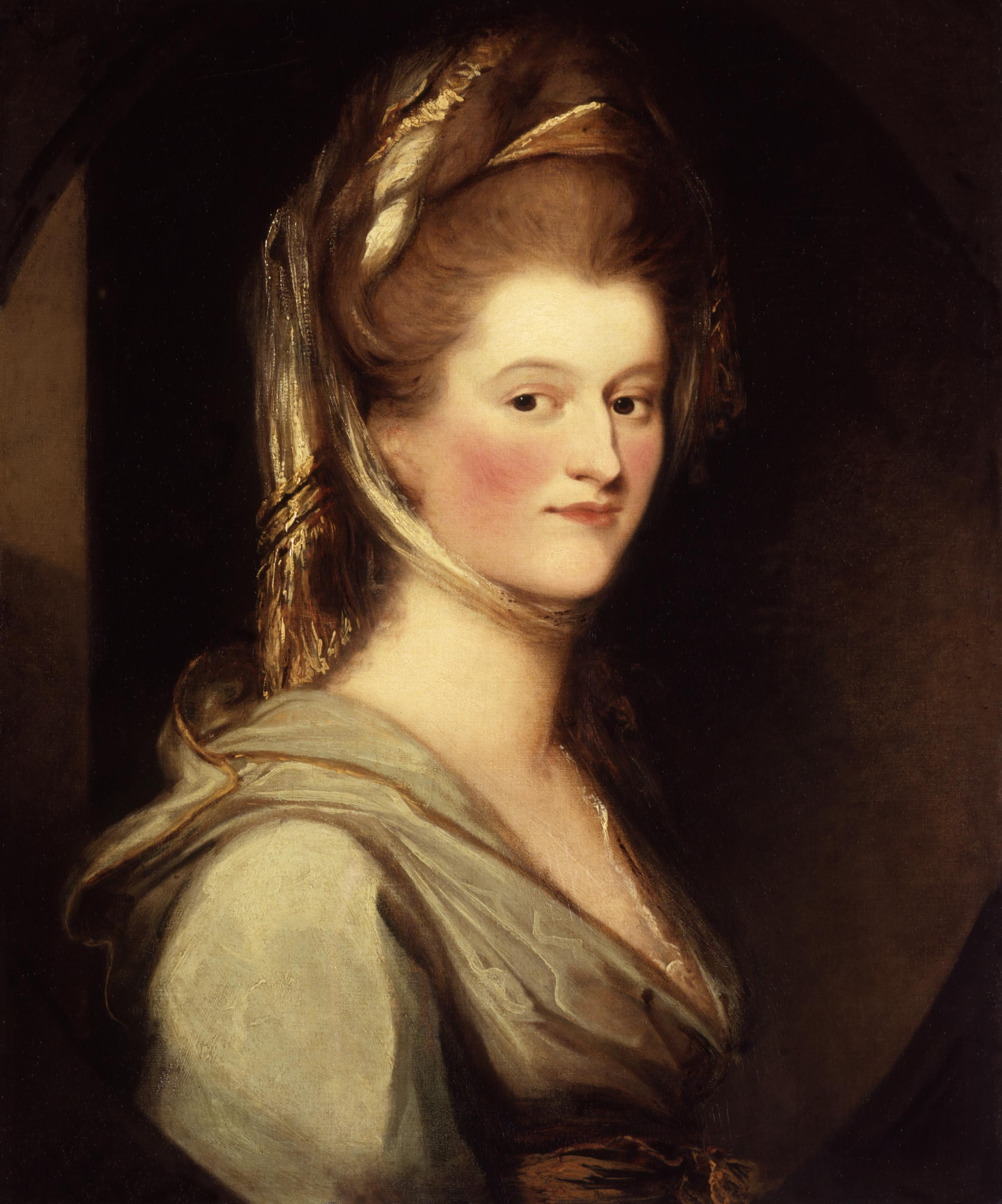 The subject is Lady Elizabeth Berkeley (1750–1828). All images in this batch have been confirmed as author died before 1939 according to the official death date listed by the NPG.